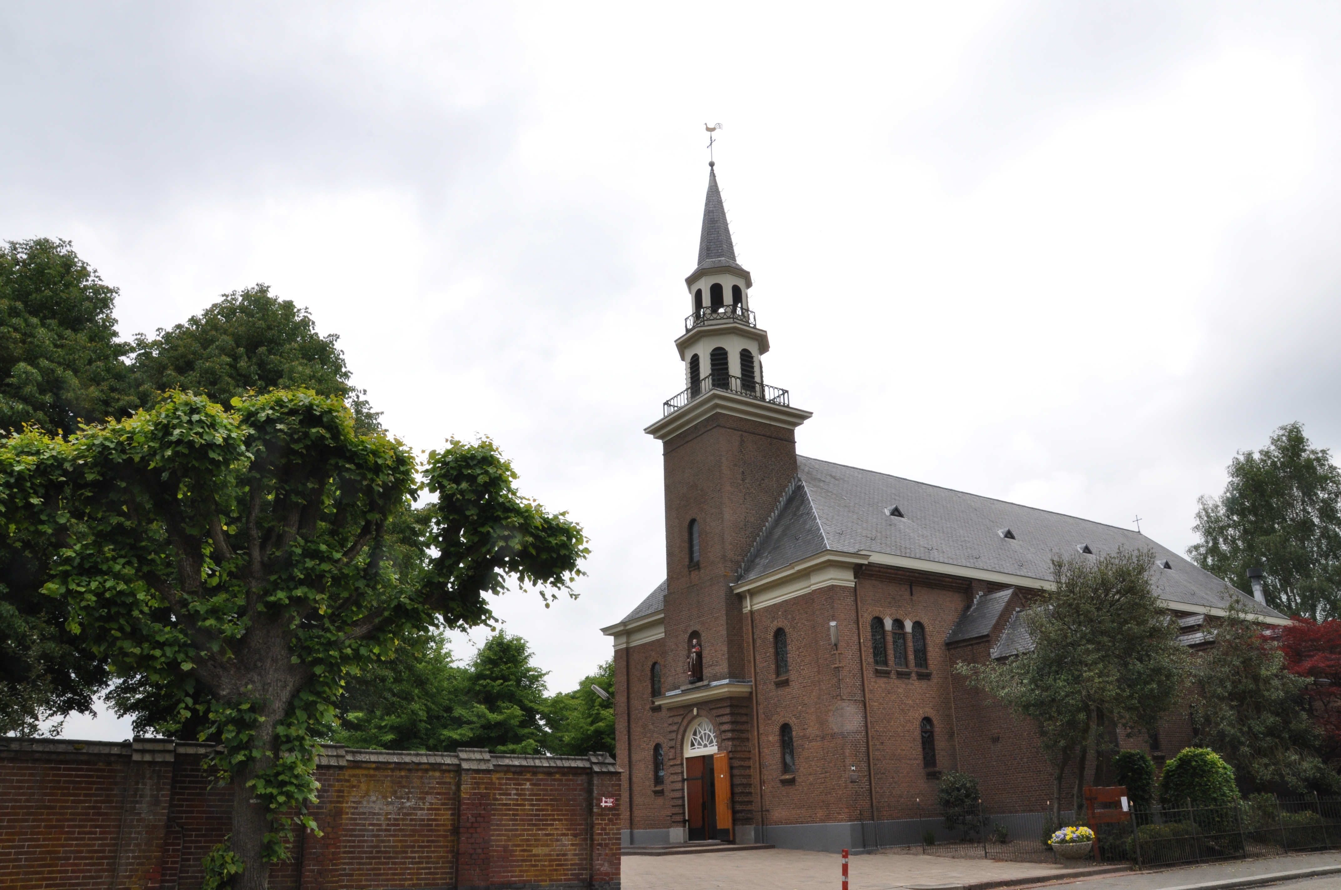 Roman-Cahtolic church at Loenen